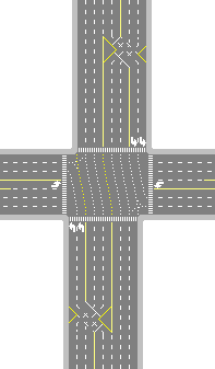 This is a diagram of a continuous-flow intersection that I drew myself based on other images and descriptions of this type of intersection.